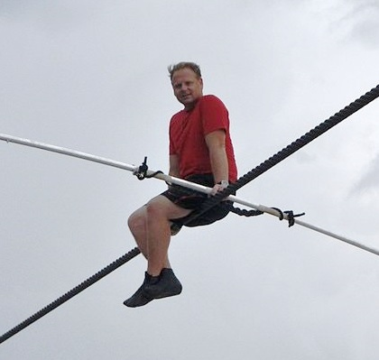 Nik Wallenda Takes a Break from Training for June 23, 2013 Grand Canyon Walk at Nathan Benderson Park, to Answer Questions by the Crowd, Sarasota, Fla., June 16, 2013